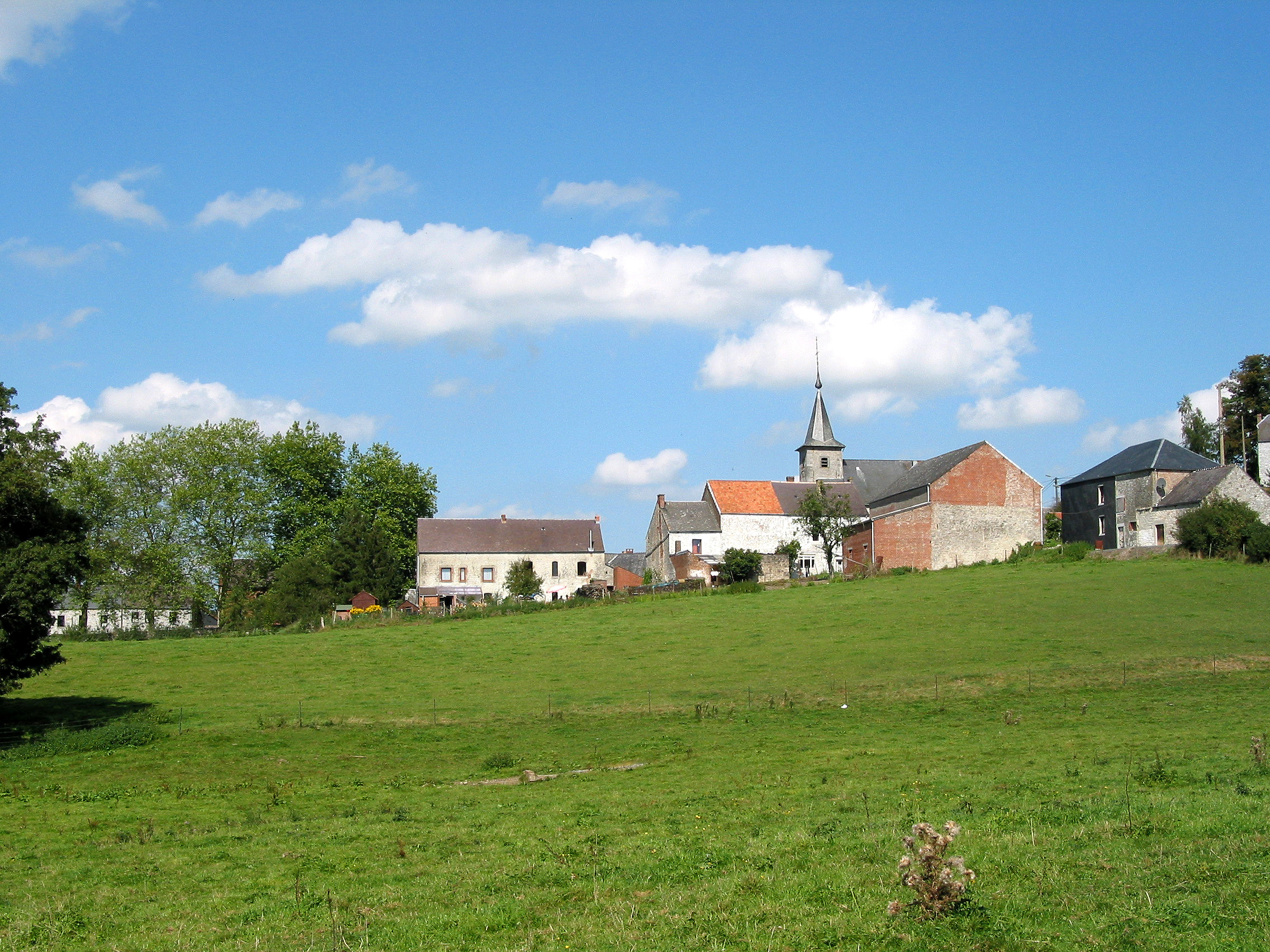 Roly (Belgium), the village in the summer.